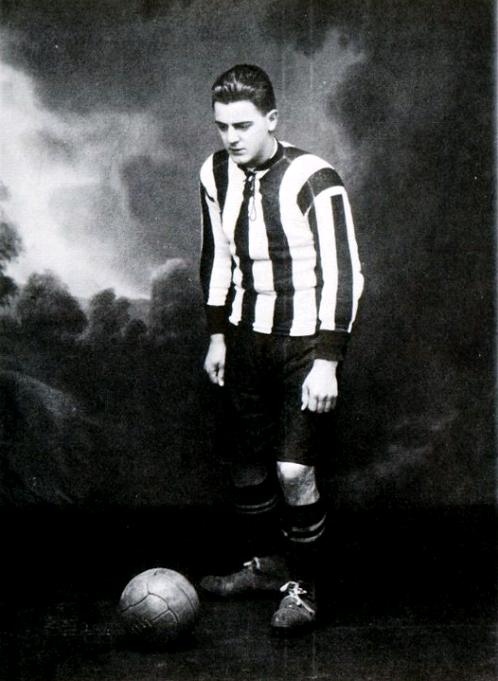 Landskrona BoIS first real star, and still the one that has scored most goals for the club. Swedish photo from around 1930